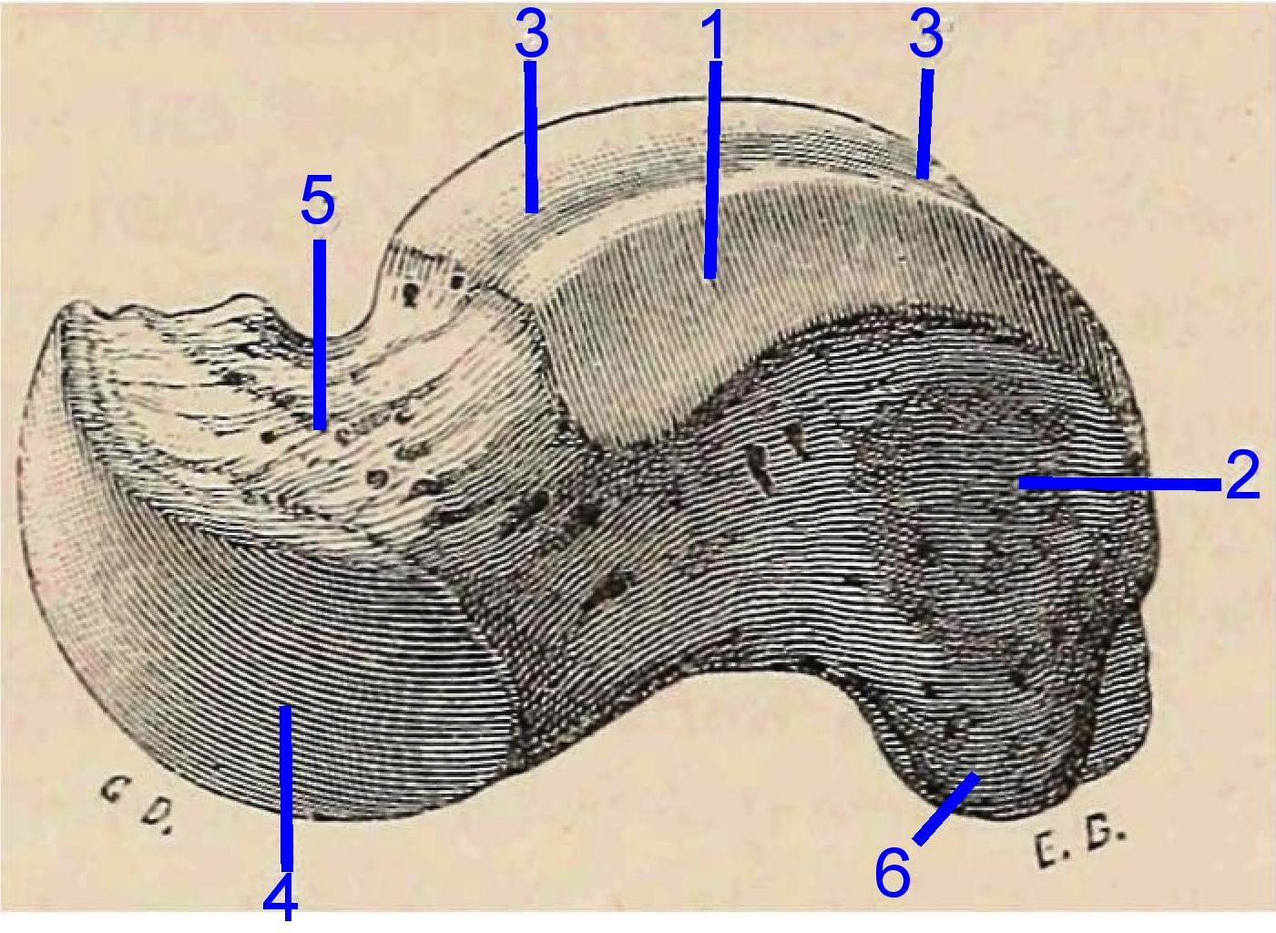 Talus, medial face Testut